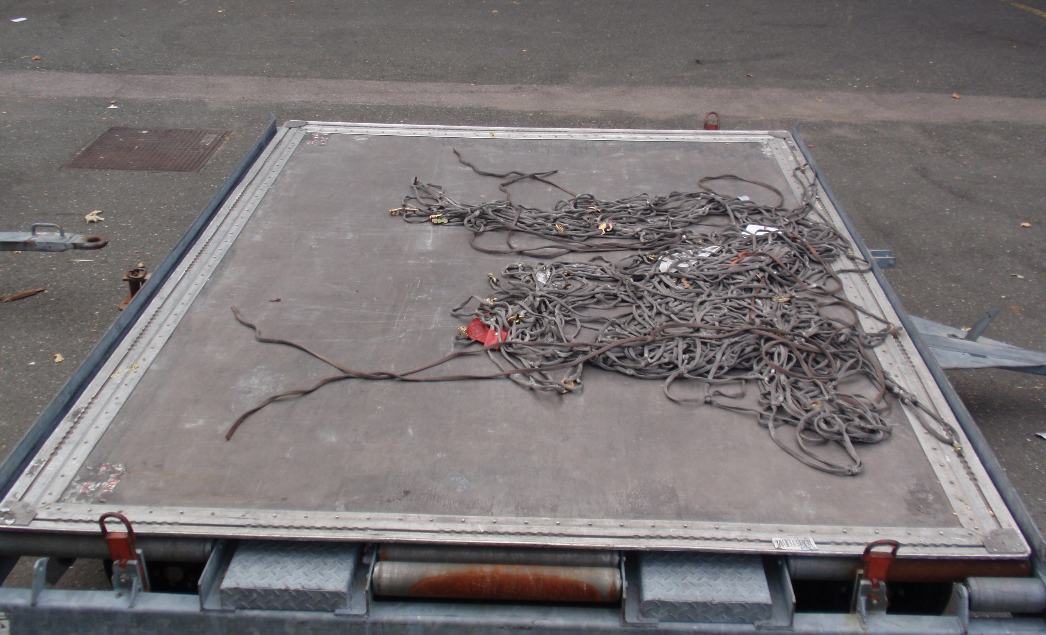 LD7 pallet 244 × 318 cm